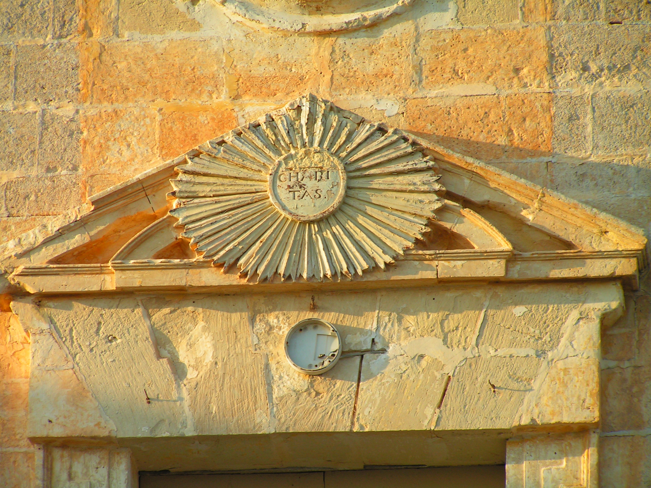 Chapel of the Madonna of Mount Carmel This media is about Maltese cultural property with inventory number 02183.